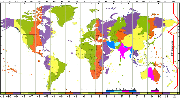 Time Zones in 2012